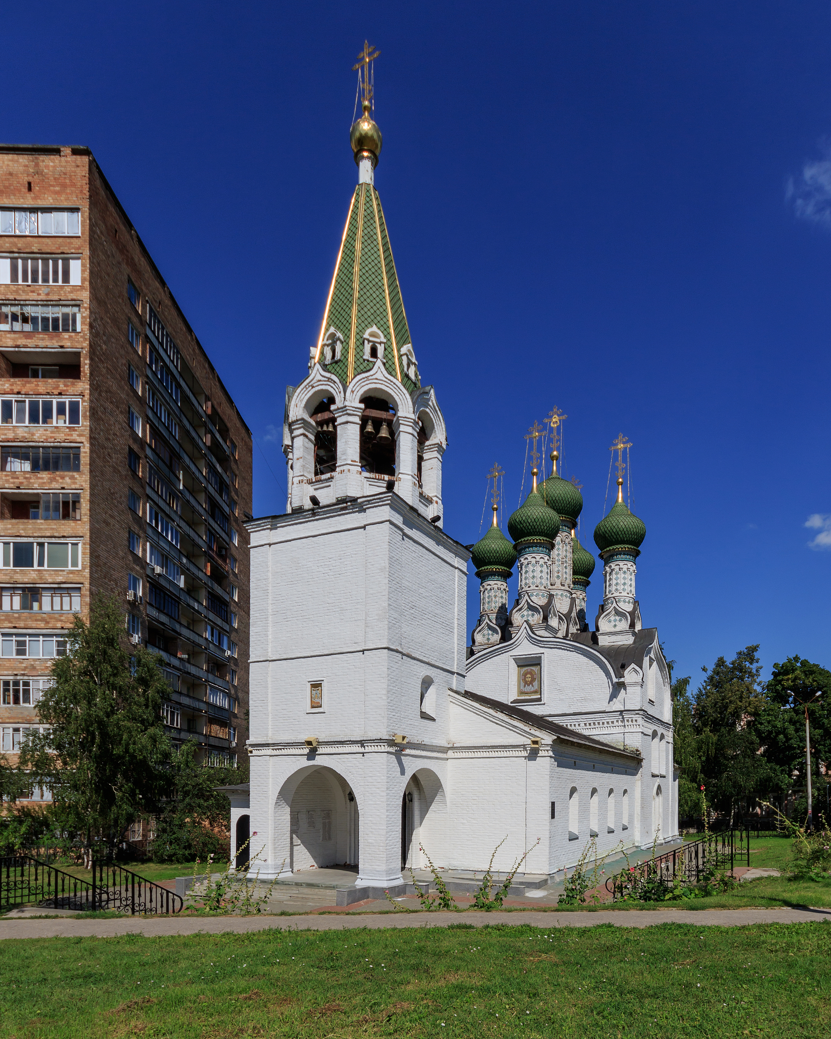 Assumption Church on Ilyinskaya Hill in Nizhny Novgorod, Russia